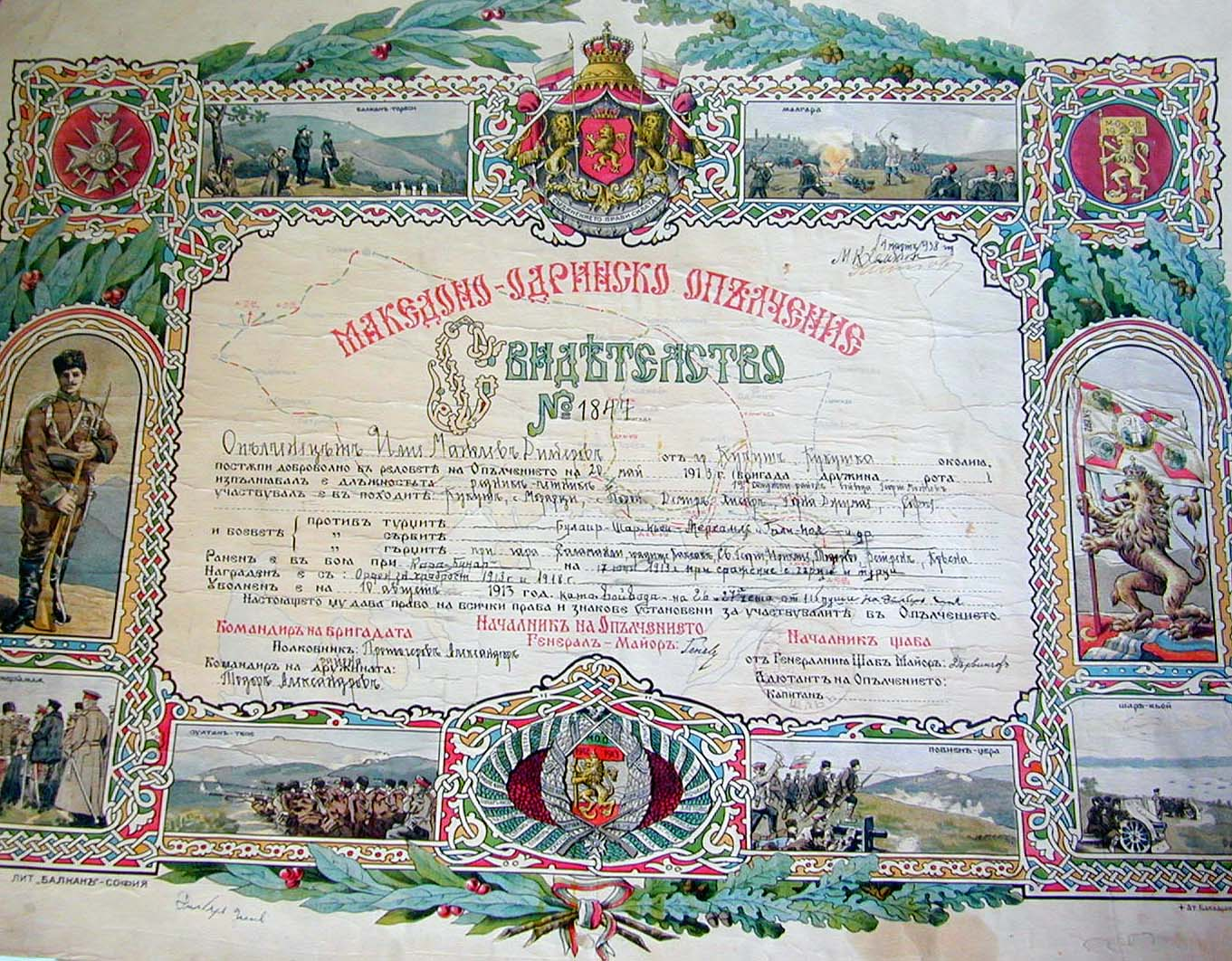 Certificate for service in the Macedonian-Adrianopolitan Volunteer Corps of Iliya Dilberov from the town of Kukush (today Kilkis Greece).